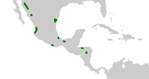 Distribution of the Genus Dioon